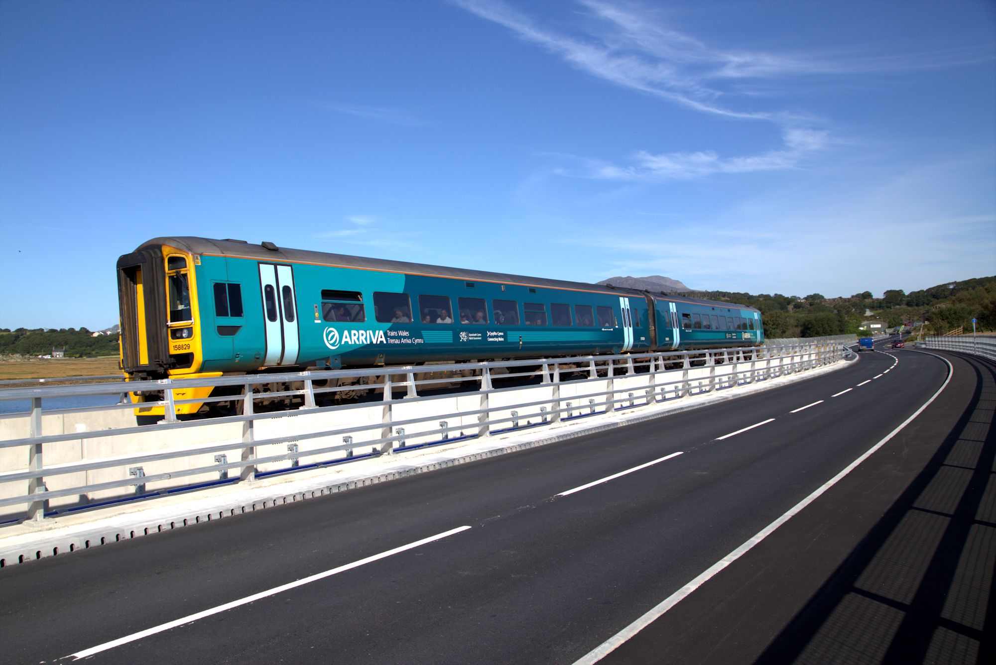 A train heading south crossing the now fully operational bridge.